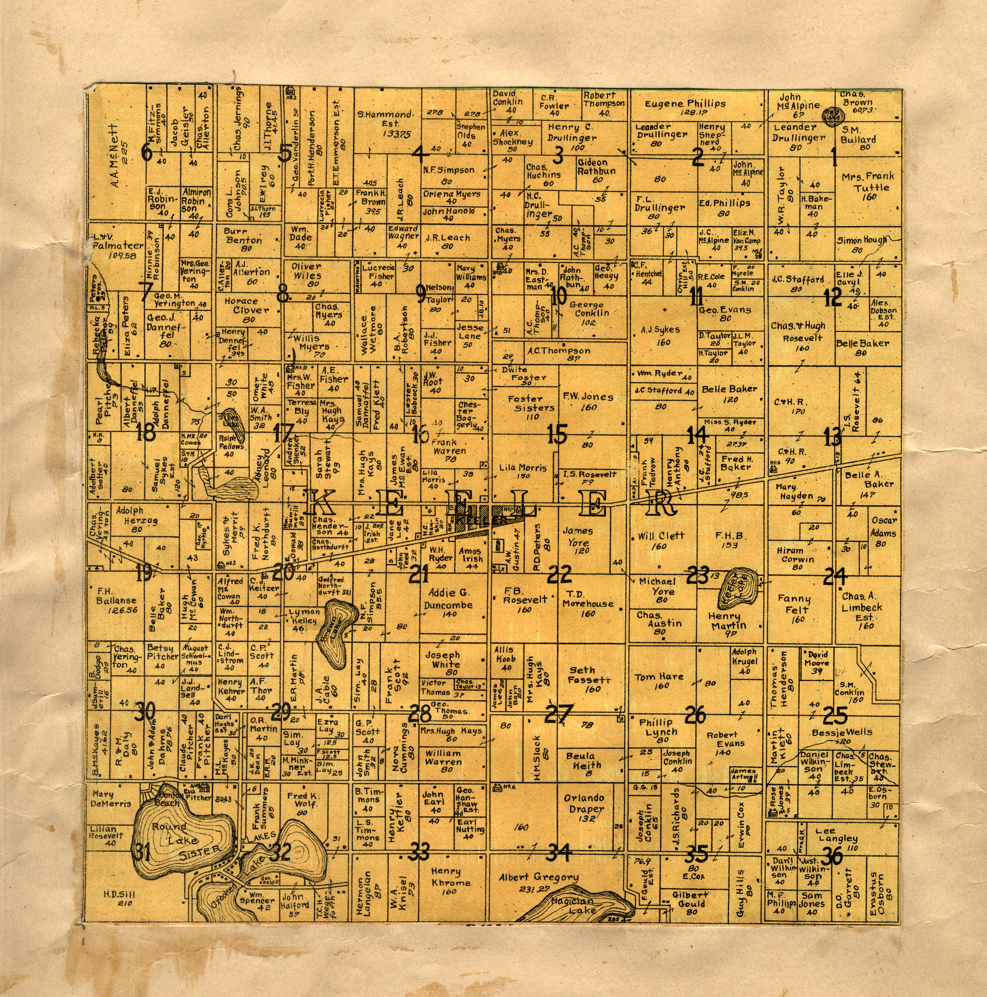 Digital scan of the Keeler Township portion of a larger 1906 map of Van Buren County, Michigan. The county map was cut into township-sized pieces, and the pieces were later found pasted into an 1895 atlas of Van Buren County, now in the collection of the Michigan State University Map Library. Each township map cut from the 1906 county map was pasted onto a blank page opposite the map of the corresponding township in the 1895 county atlas. Shows parcel boundaries and names of property owners, Public Land Survey System township and section numbering, roads, railroads, residences, schools, churches, municipalities, and water features. Print version was cut from map: Orton, M. K. A farm map of Vanburen County, Michigan / compiled from official records and local inspection by W.H. Goss, County Surveyor ; drawn by M.K. Orton. Rockford, Ill. : W.W. Hixson, [1906]. MSU Libraries catalog record